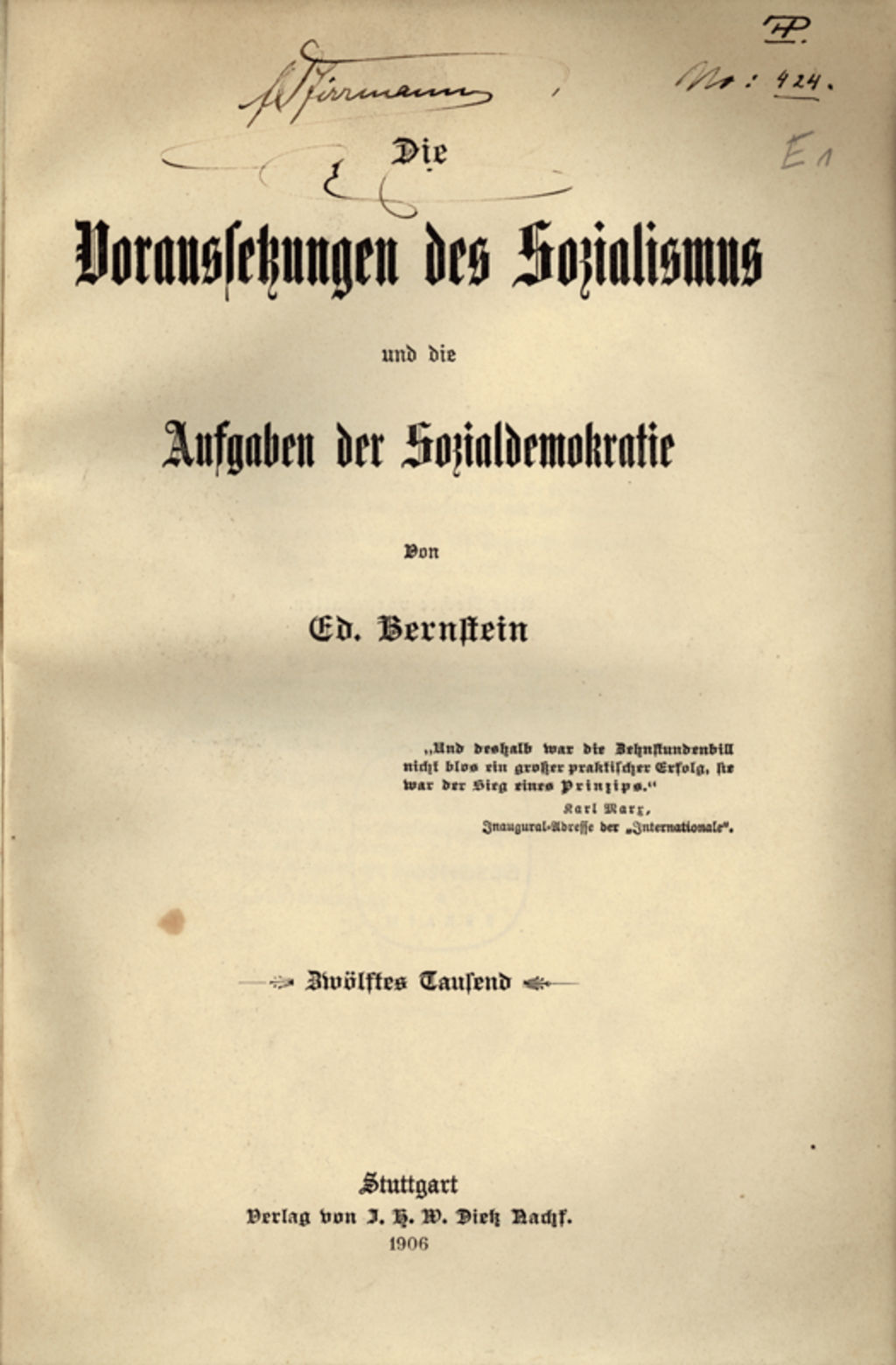 Eduard Bernstein: The Prerequisites for Socialism and the Tasks of Social Democracy, 1906. German Edition